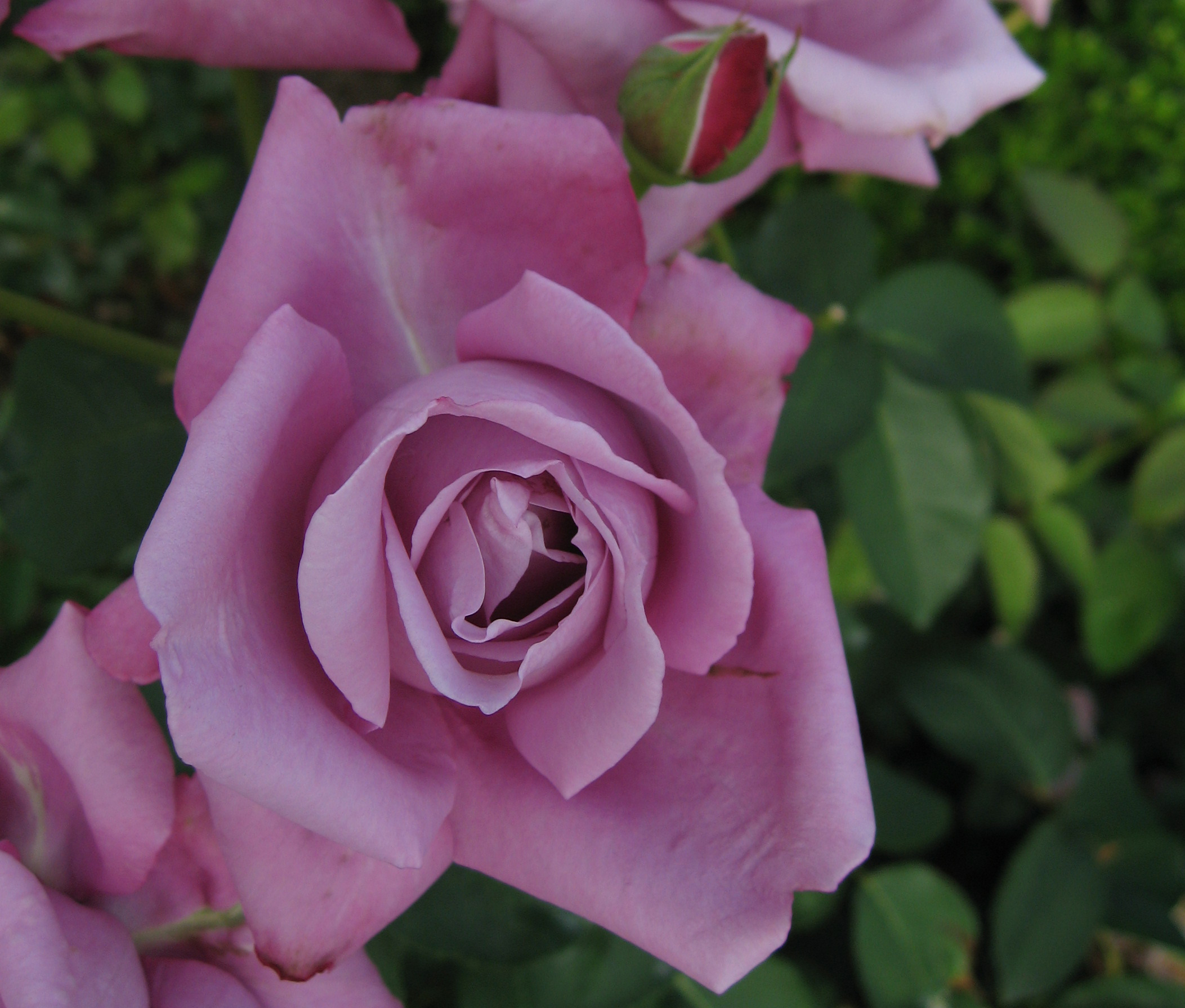 Rosa cv 'Charles de Gaulle', HT, Meilland (1974) Flower Festival Commemorative Park Seta Kani, Gifu Japan.